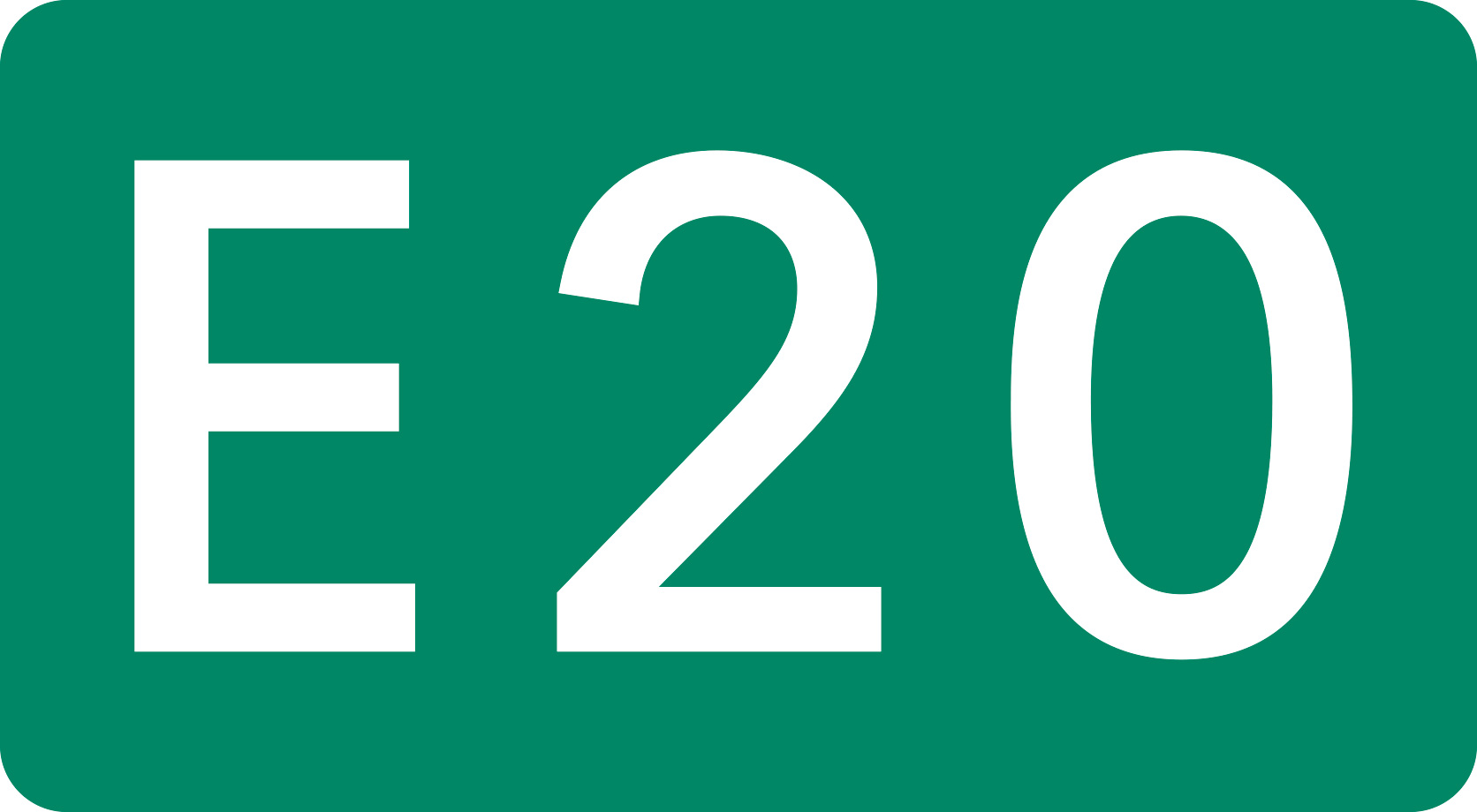 Signs for expressway numbering.."E20" representing the chuo expwy.